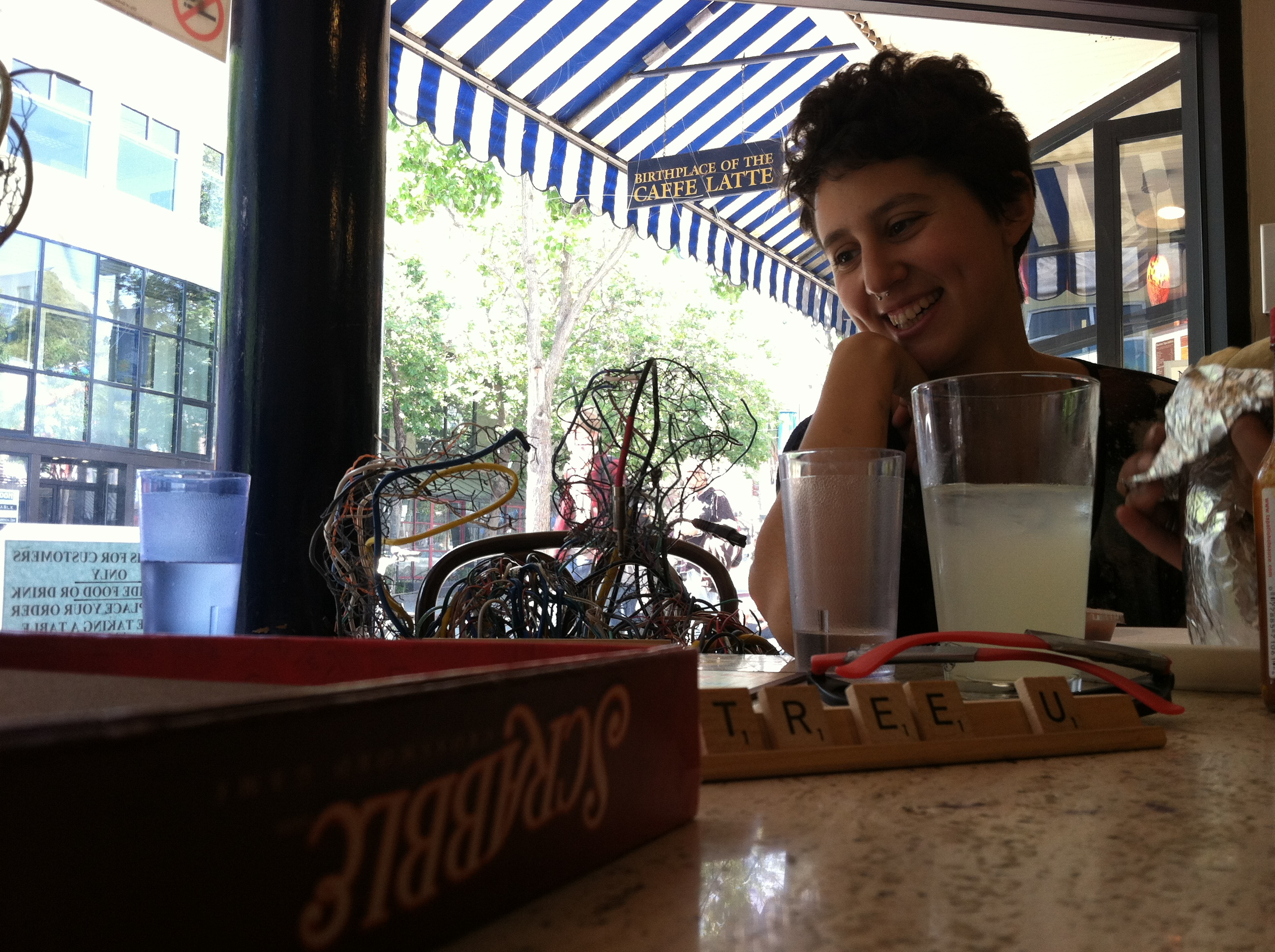 People from all over the world came to Cafe Med